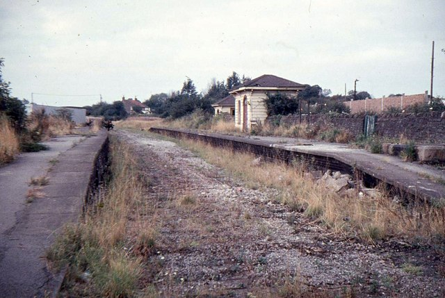 Warmley railway station in 1972